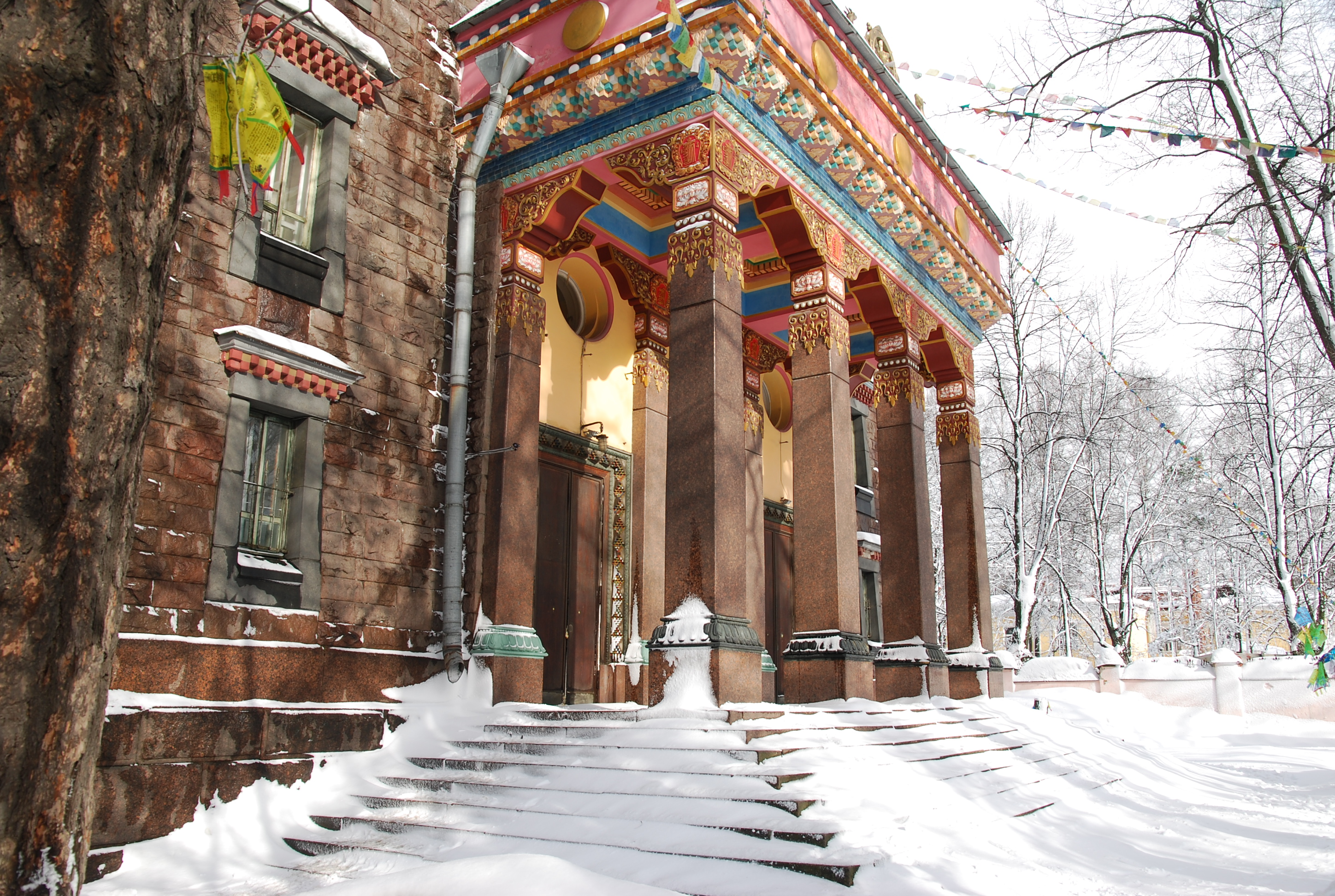 The Buddhistic Temple in St. Petersburg (Datsan Gunzechoinei) Primorsky pr. 91